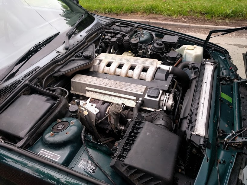 E34 M51 Diesel